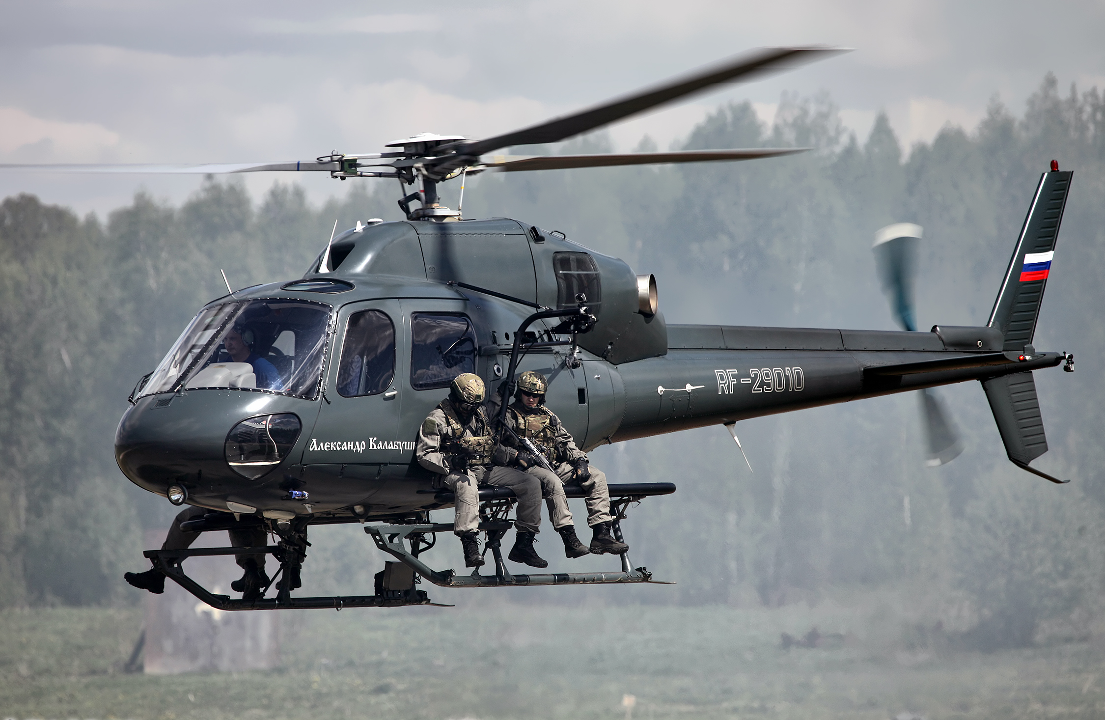 AS355N Ecureil 2 from Special Purpose Aviation Detachment Yastreb landed a group of SOBR Rys' operators